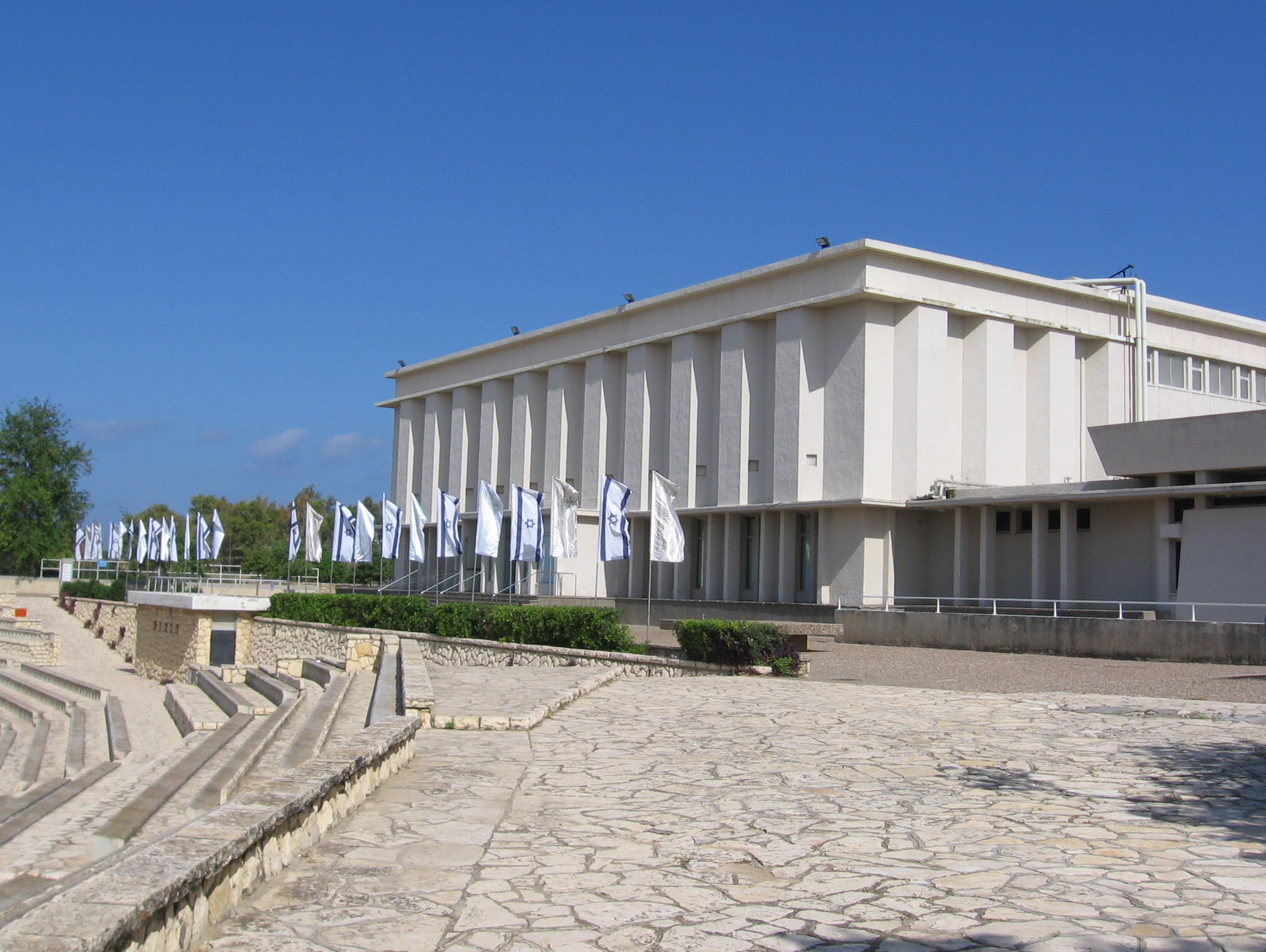 Ghetto Fighters' House